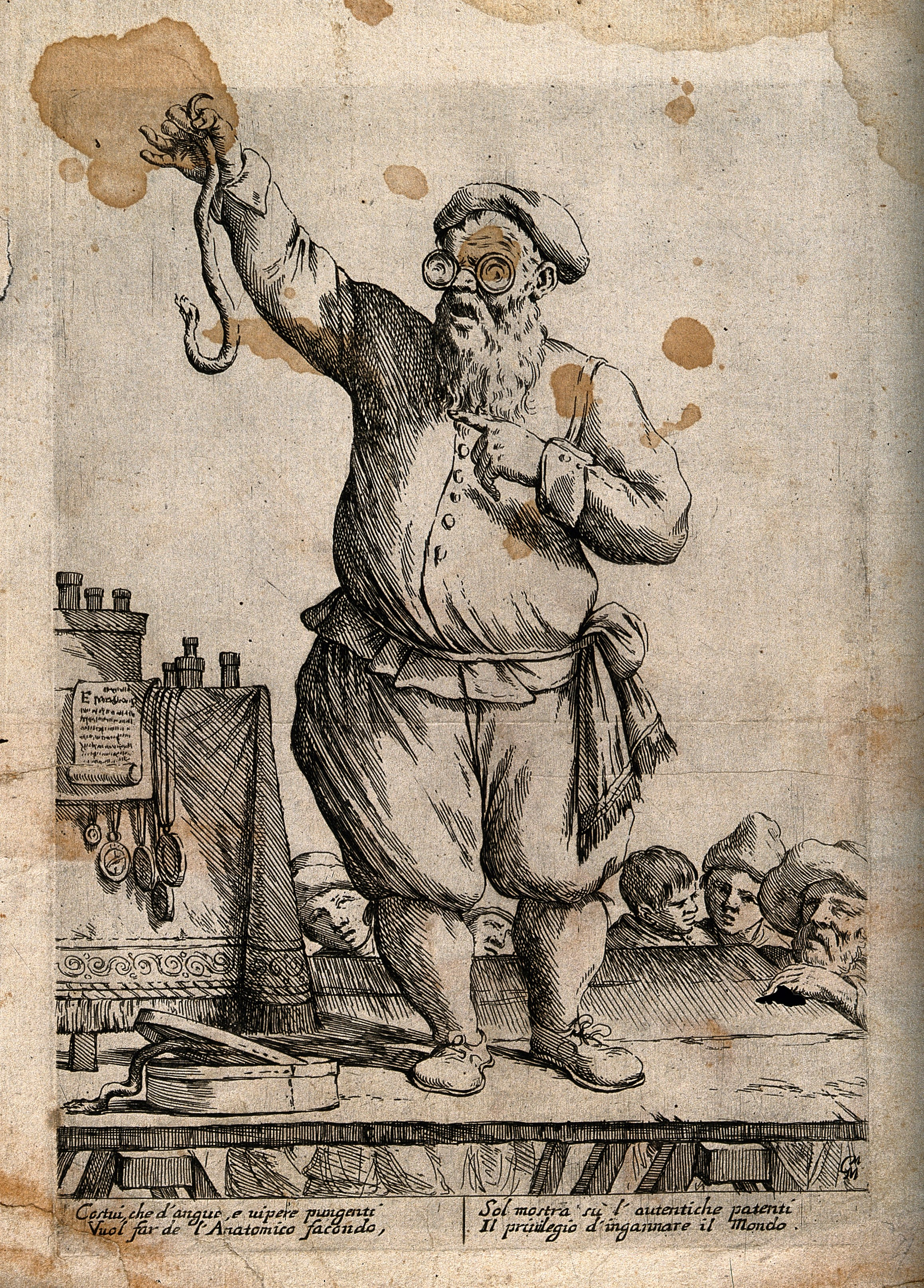 An itinerant medicine vendor performing on stage with a snake in an attempt to sell his wares. Etching by G.M. Mitelli. Iconographic Collections Keywords: Giuseppe Maria Mitelli